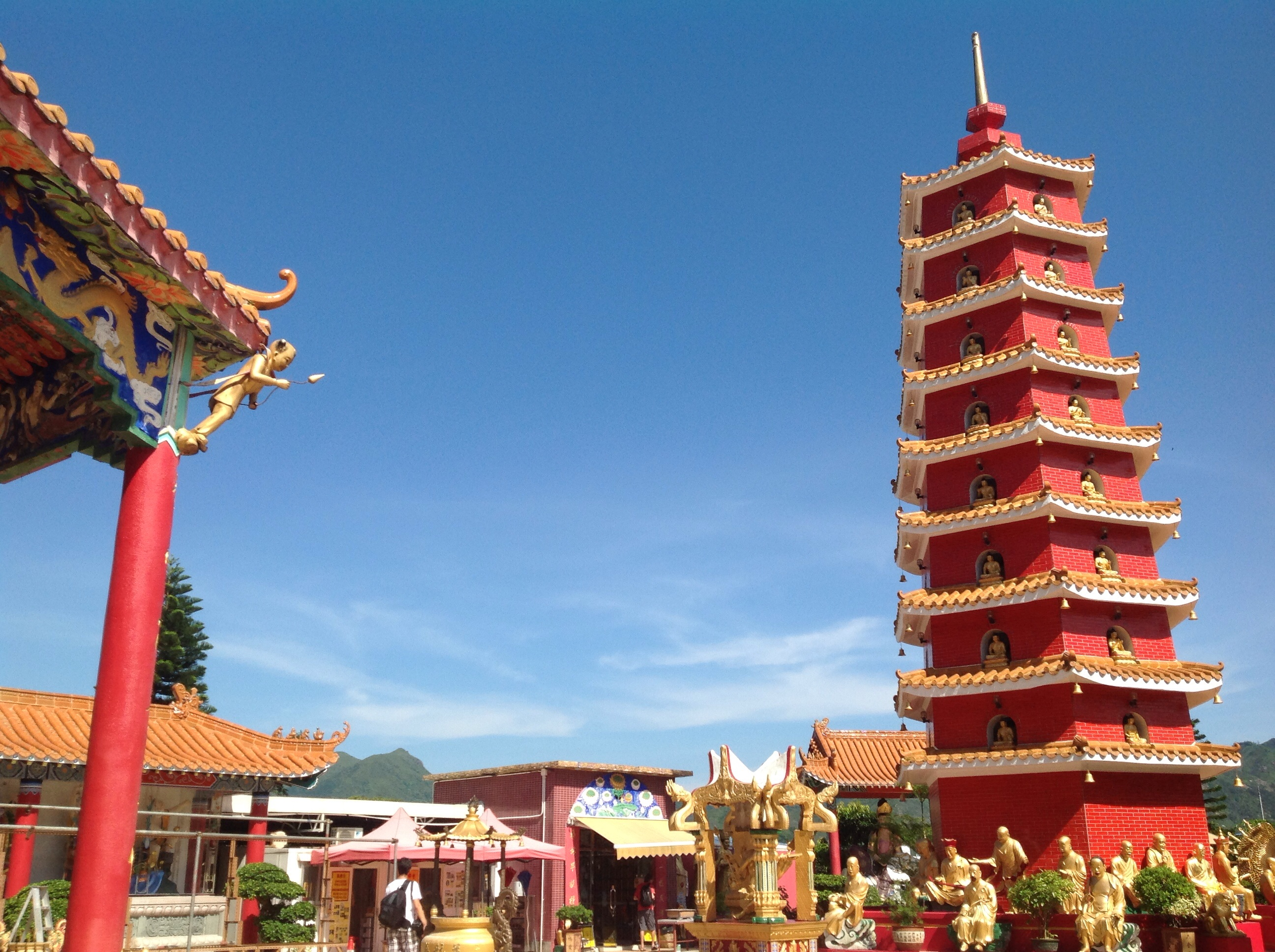 Man Fat Tsz Pagoda